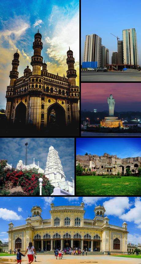 Montage of Hyderabad with wikimedia commons images